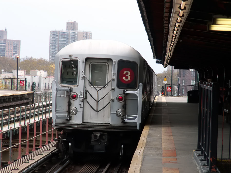 A New York City Subway train of R62 cars operating on the 3 service is seen departing Sutter Avenue–Rutland Road station in Brooklyn.